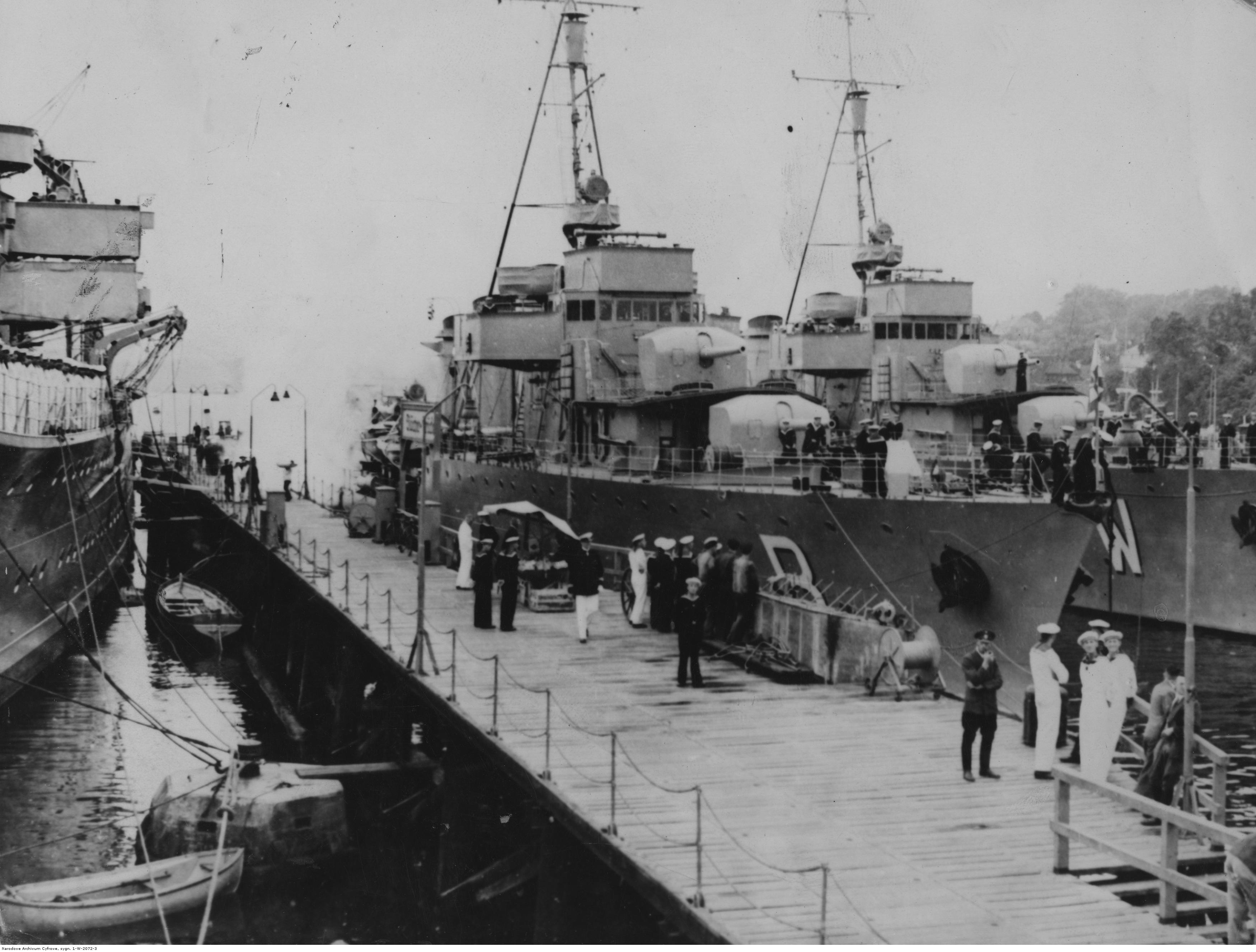 Polish destroyers ORP Burza (B) and ORP Wicher (W) in Kiel, 1935